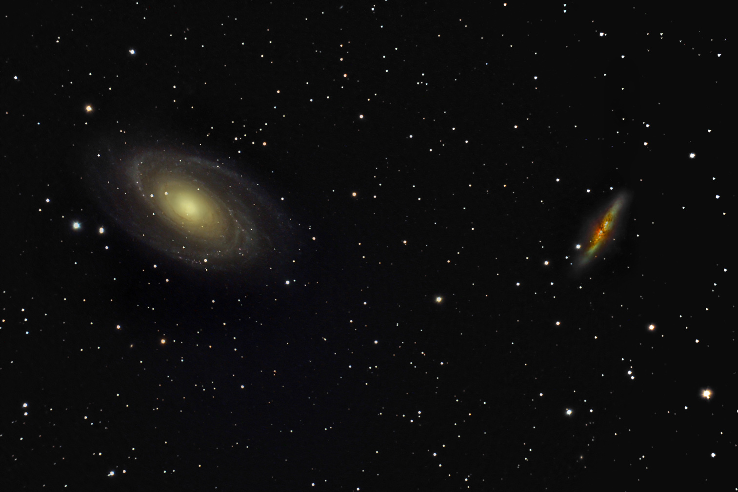 This is a visible light image of Messier 81 (left) and Messier 82 (right) taken with my backyard telescope in Kalkaska, MI in April of 2007. Category:Galaxy images